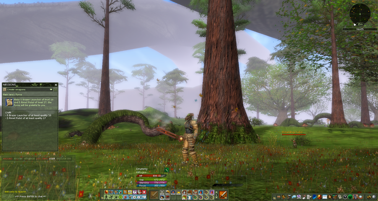 This is a screenshot of a free and open-source MMORPG Ryzom, taken by me. It shows my character in a typical game screen. The game media are released under CC-BY-SA.